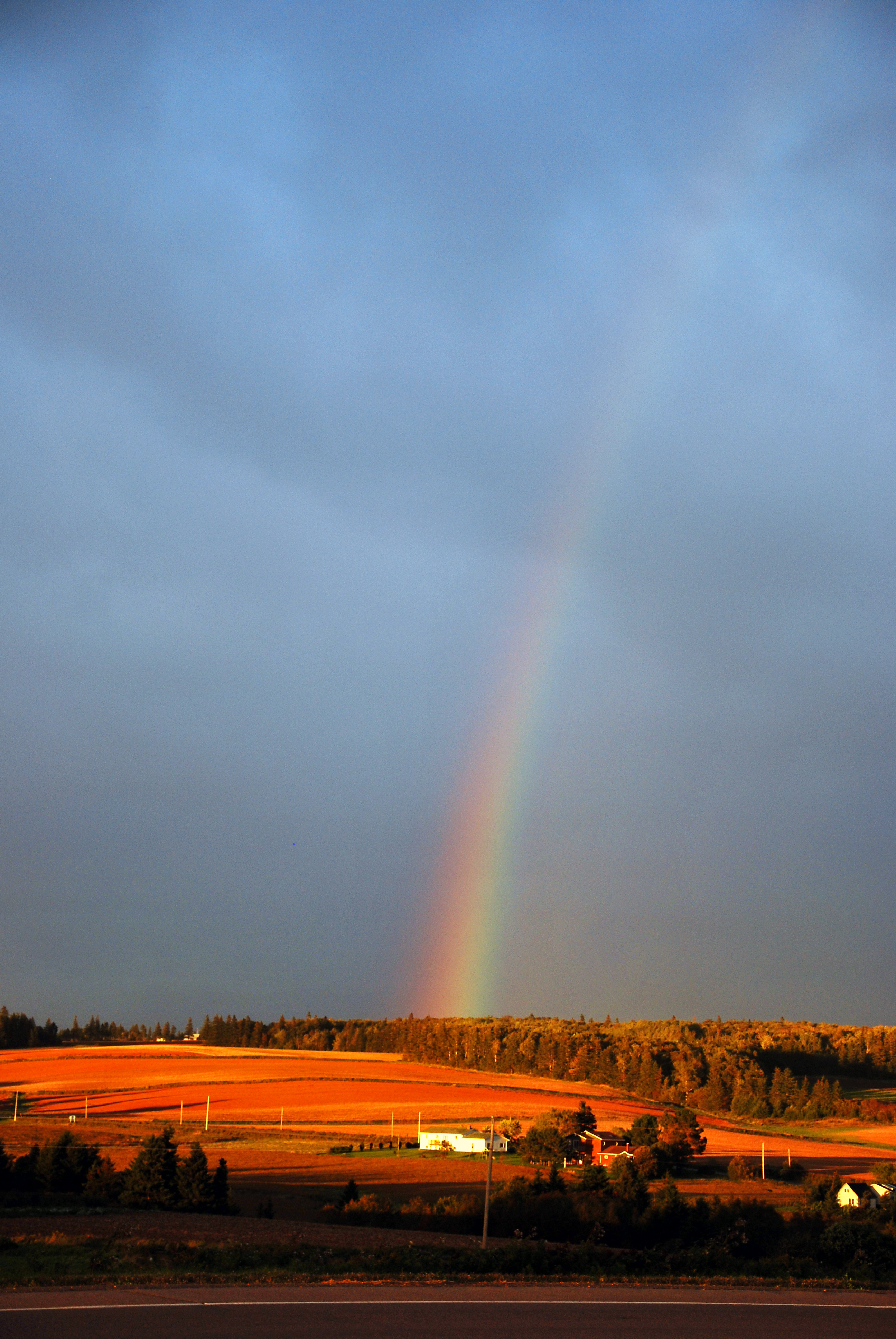 Prince Edward Island farm rainbow 2009